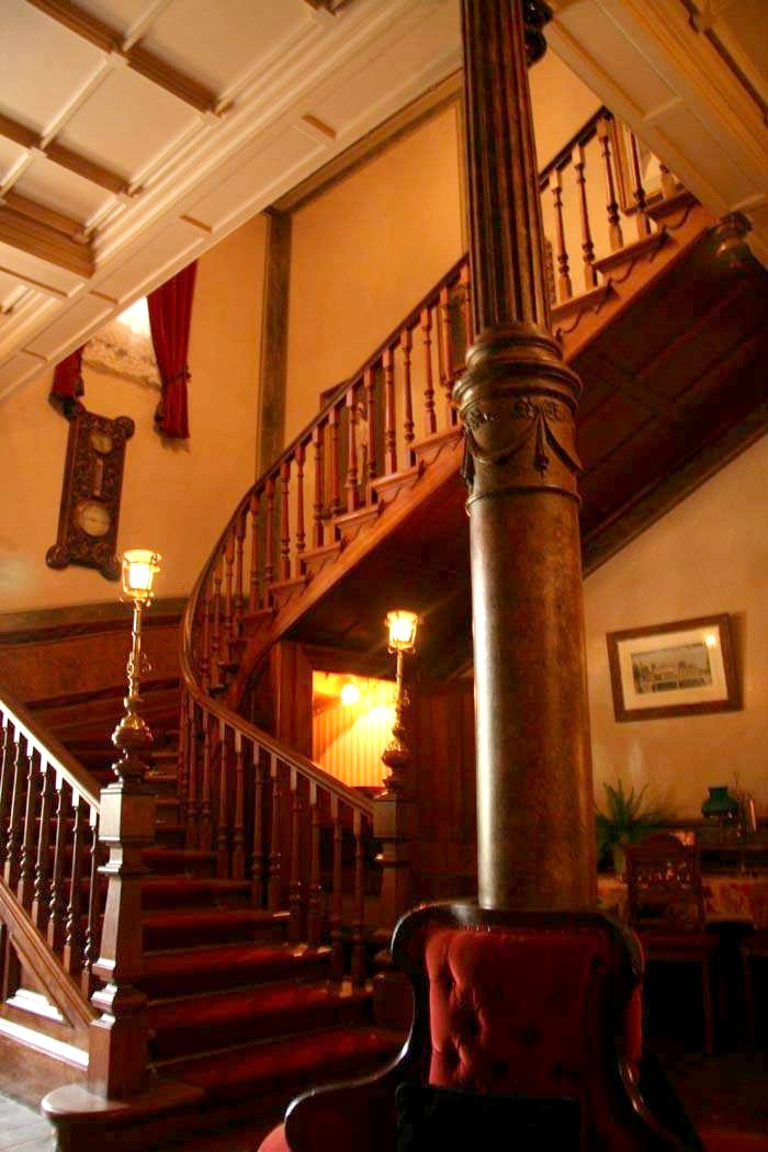 Staircase in Sammy Marks' mansion near Pretoria, South Africa